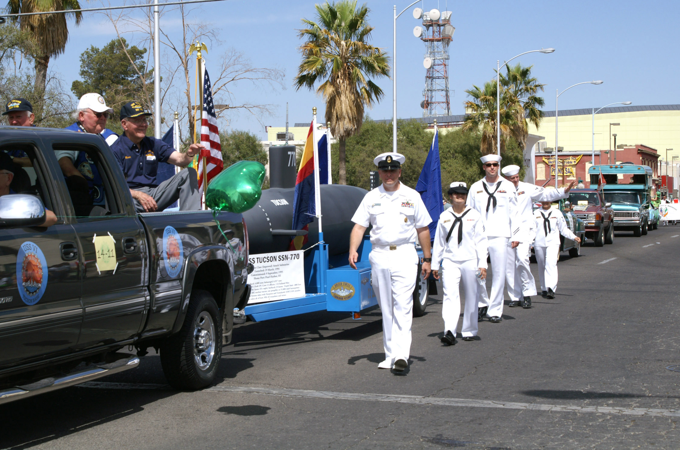 TUCSON, Ariz. (March 17, 2007) - Sailors from the Los Angeles-class fast attack submarine USS Tucson (SSN 770) and Navy Operational Support Center Tucson take part in the annual St. Patrick's Day Parade. The Sailors were present for festivities concurrent with Tucson Navy Week. The week is one of 26 Navy Weeks planned across America in 2007. Navy Week is designed to show Americans the investment they have made in their Navy and increase awareness in cities that do not have a significant Navy presence. U.S. Navy photo by Mass Communication Specialist 1st Class Janine Deneault (RELEASED)